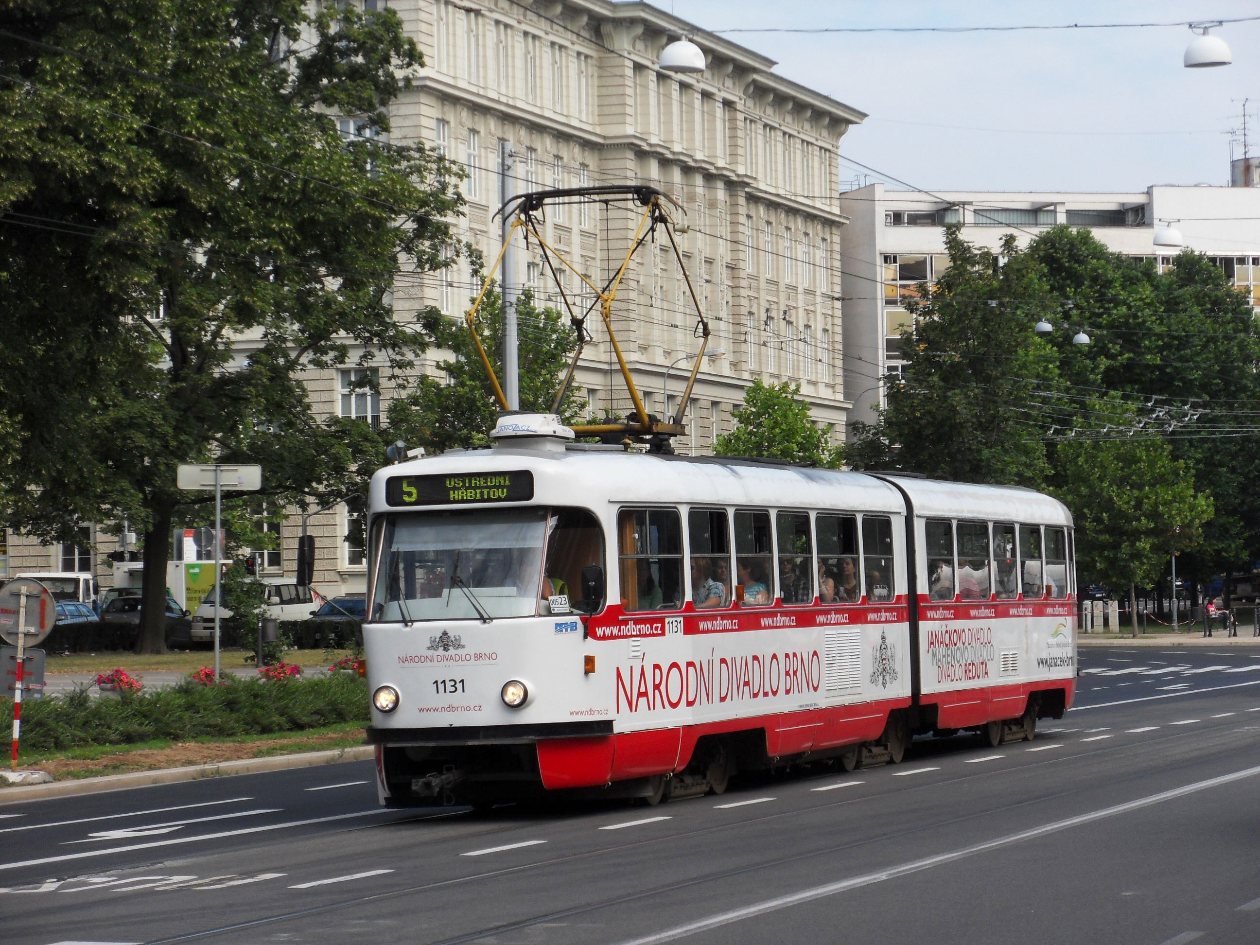 Tatra K2YU tram No. 1131 of Dopravní podnik města Brna, Brno, Czech Republic